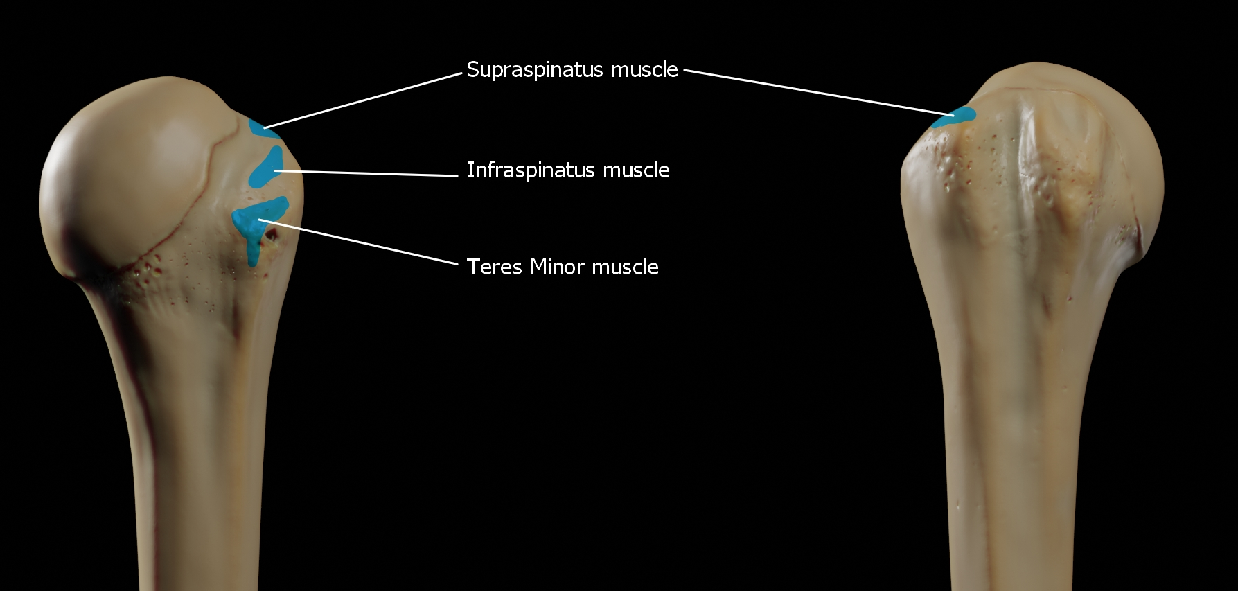 The three muscles attaching to the head of the humerus on the greater tubercle, namely the supraspinatus, the infraspinatus and teres minor.